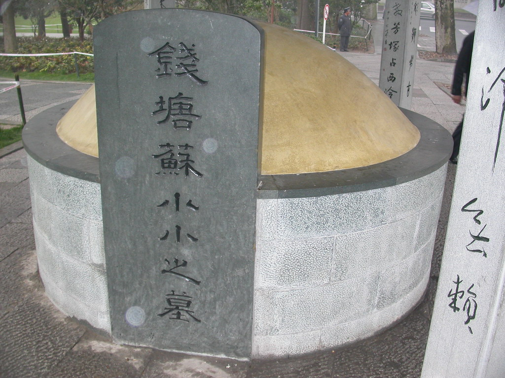 Su Xiaoxiao tomb